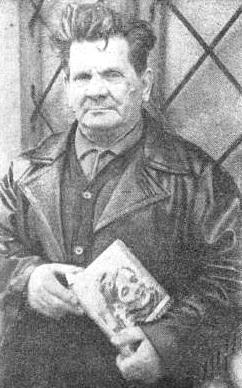 Tone Dečman-Dečko